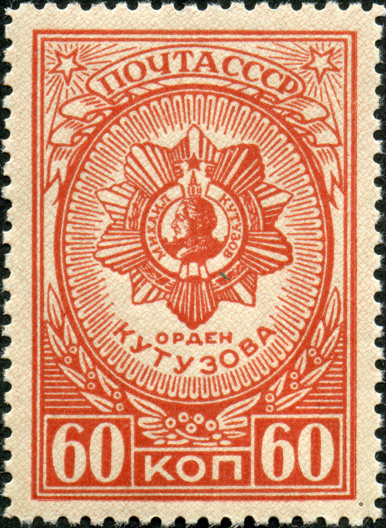 A USSR stamp, Awards of the Soviet Union